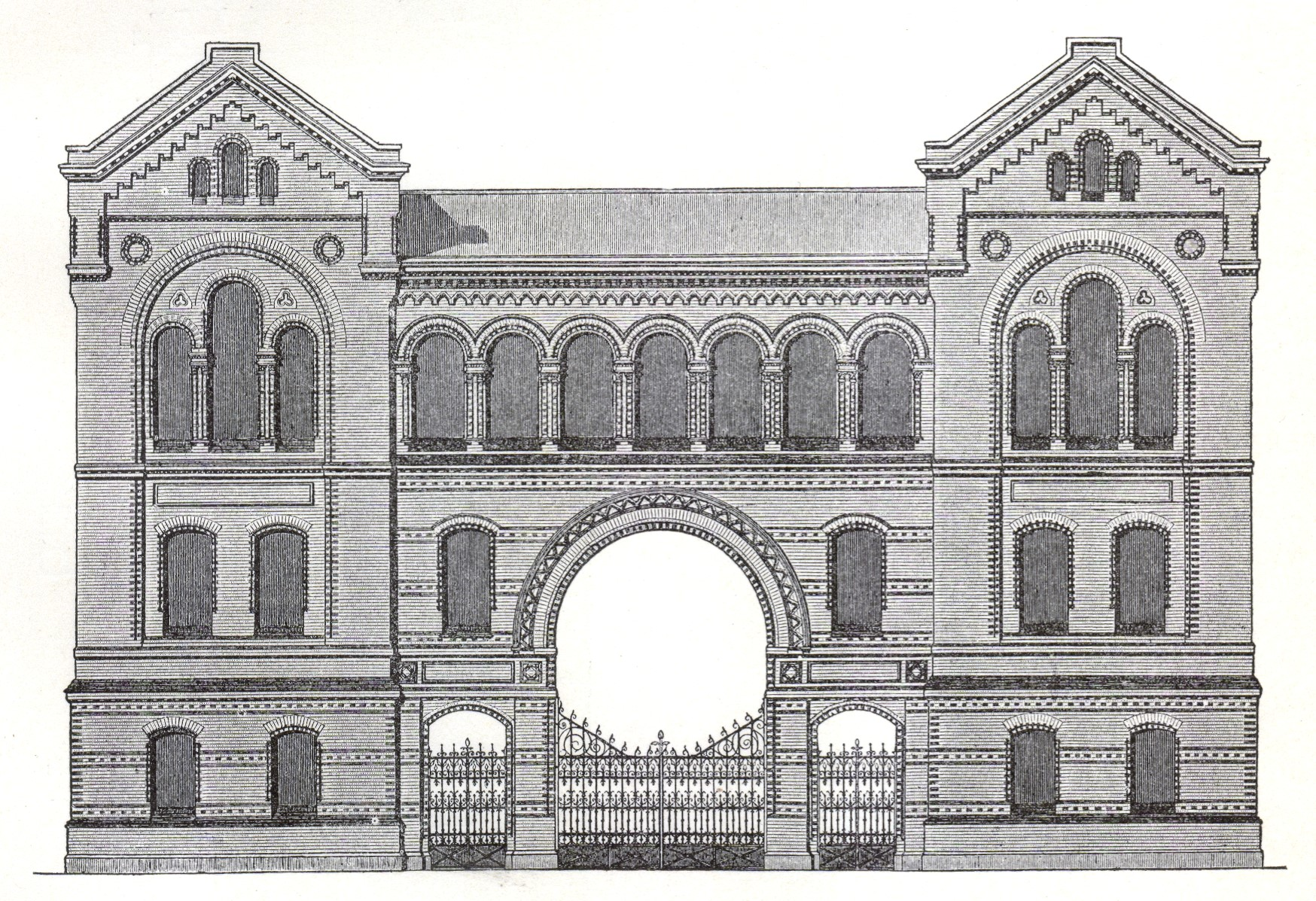 Berlin - synagogue Lindenstraße, Cremer & Wolffenstein 1890/91